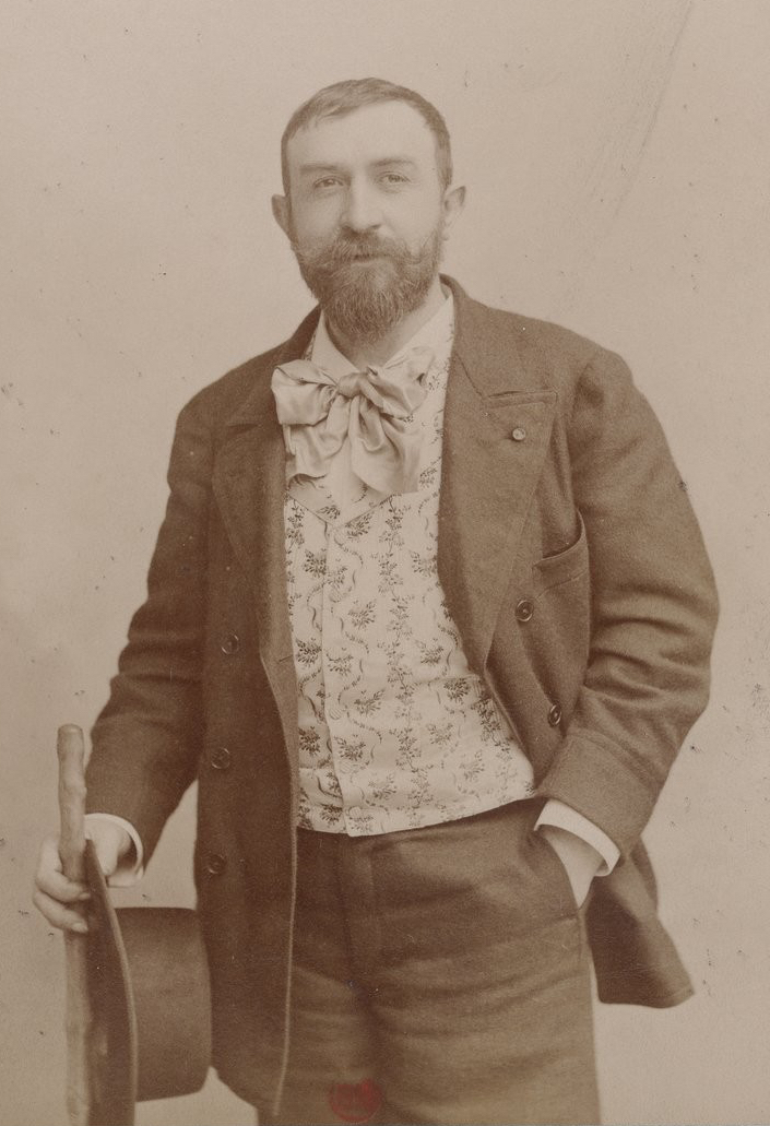 Rodolphe Salis, photographe inconnu vers 1880.